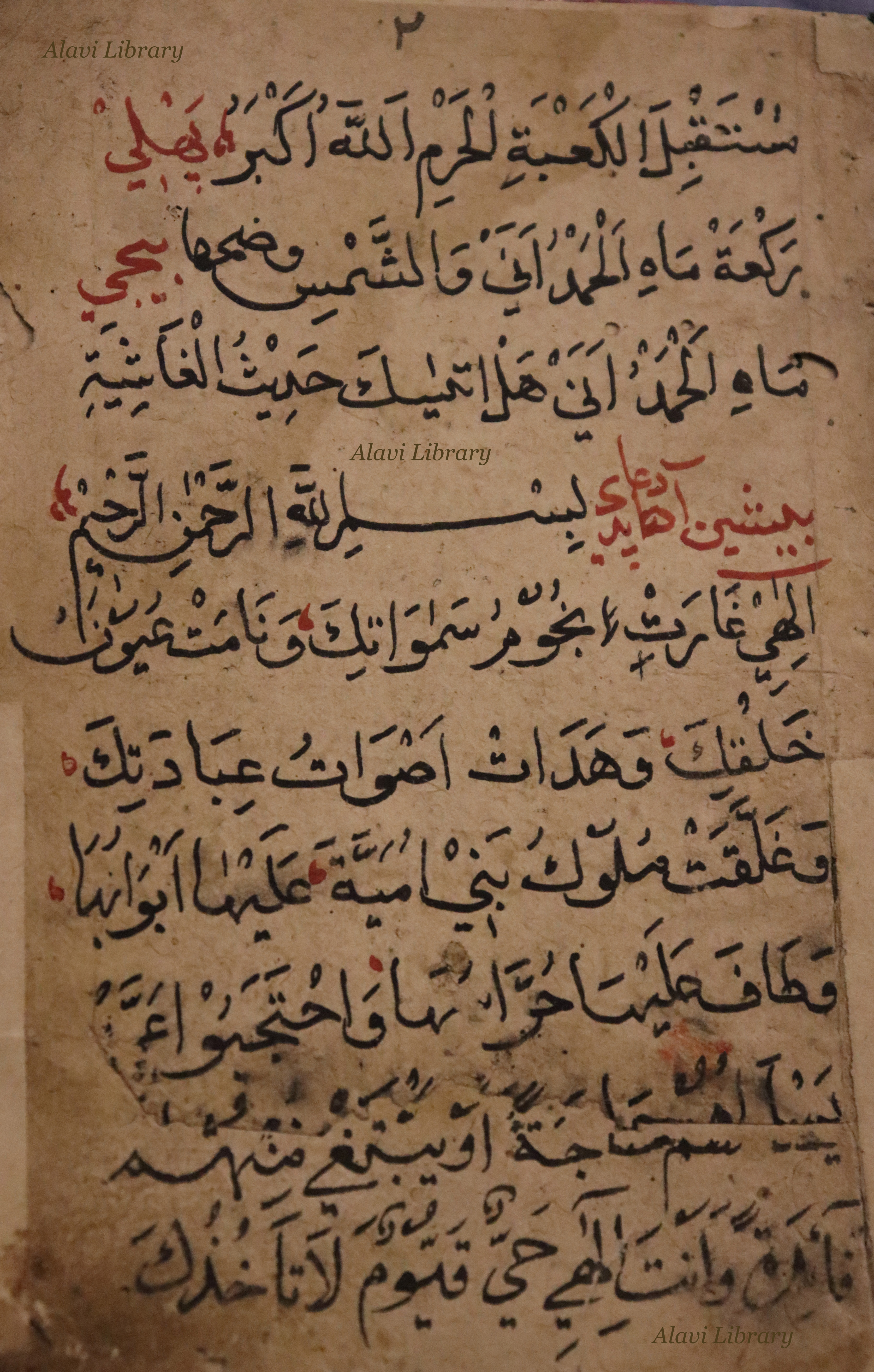 second image from the same mss during the time of 28th Da'i